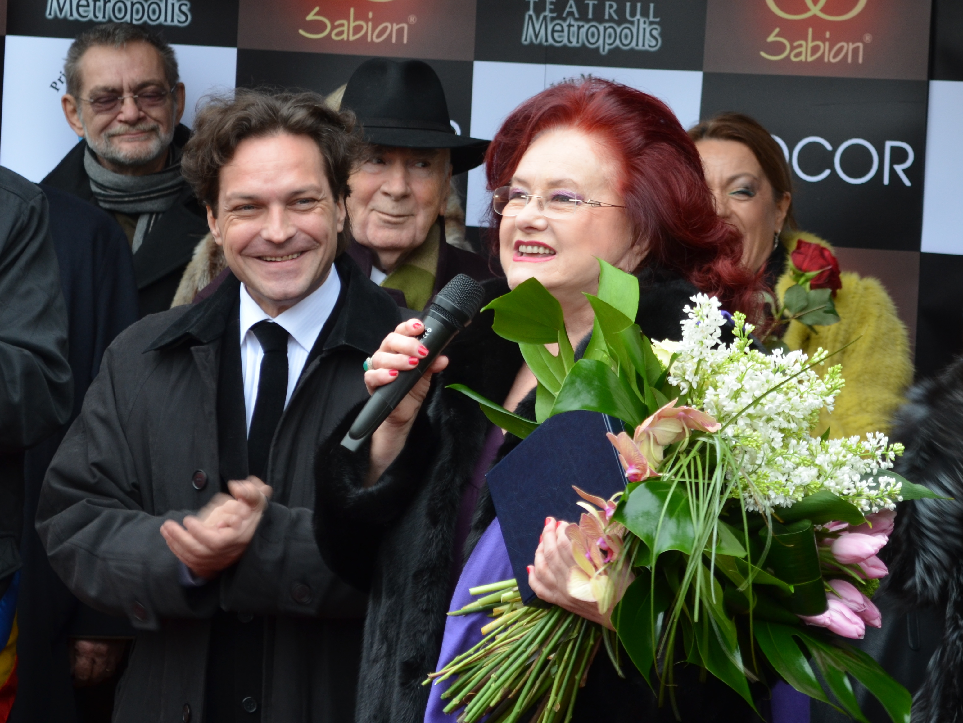 Stela Popescu and George Ivașcu